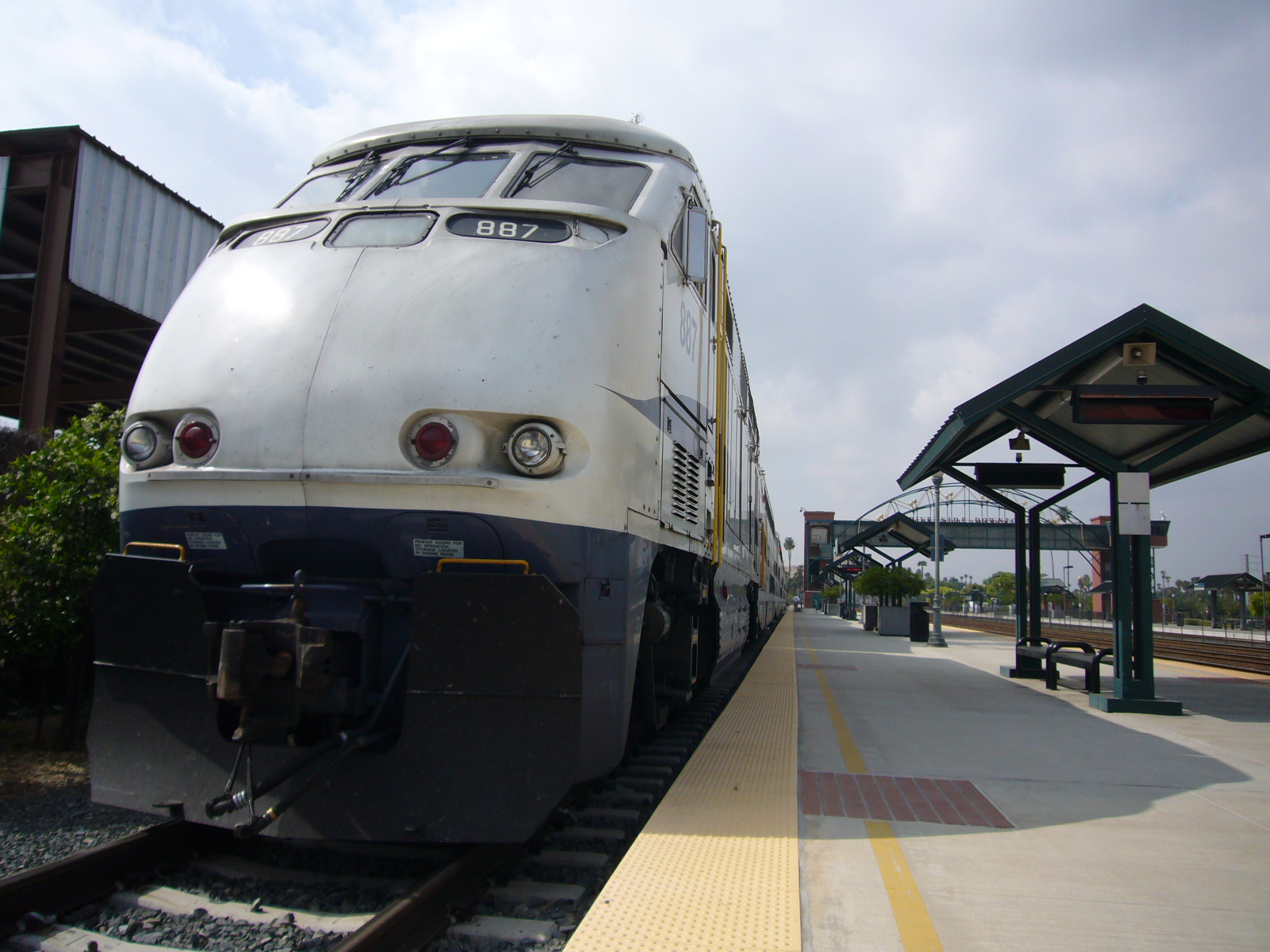 A Metrolink EMD F59PHI (#887) waits at the north platform at Riverside Metrolink/Amtrak Station.